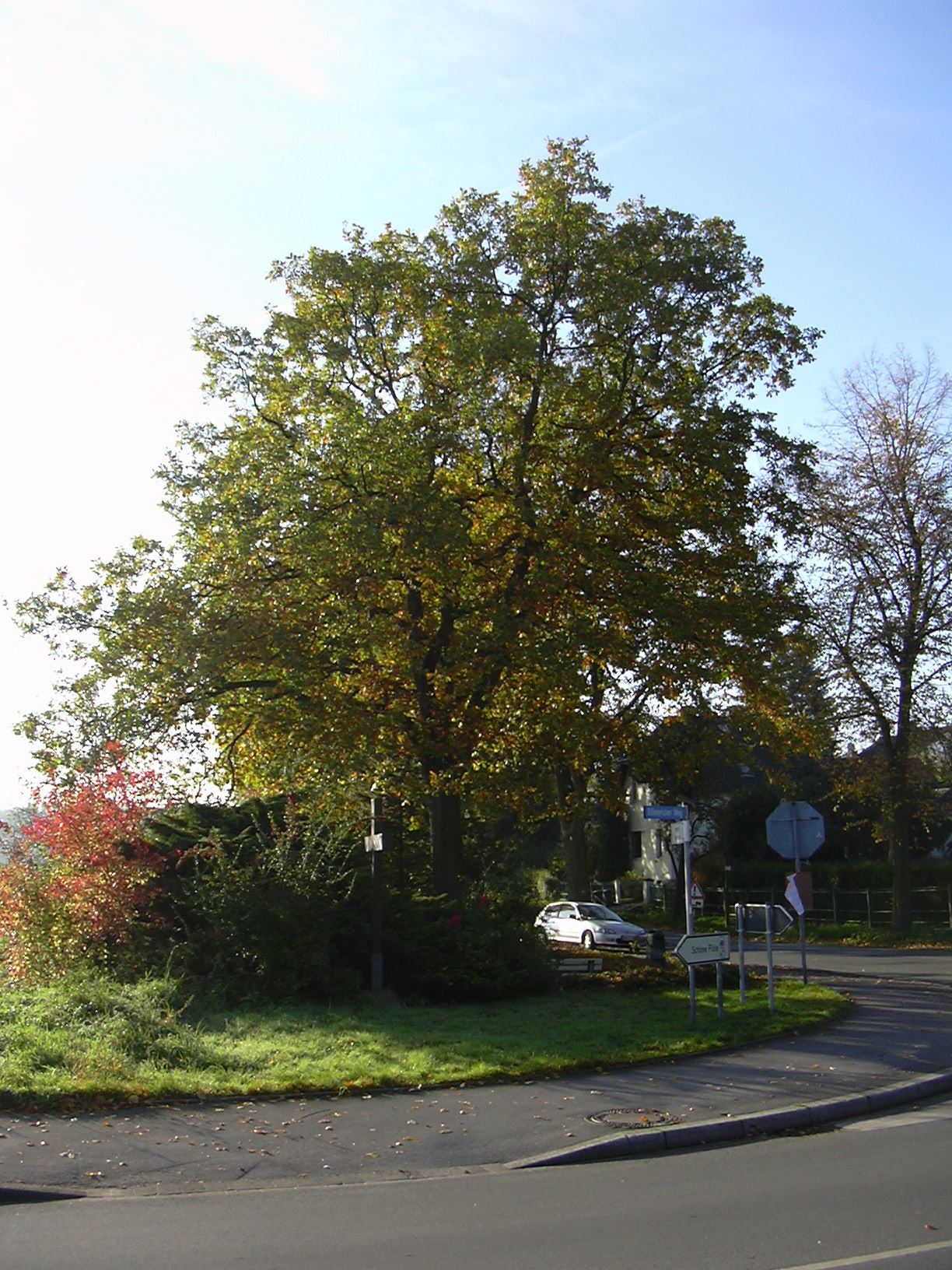 The new Hilgenbaum in Holzwickede.